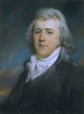 Portrait of James Stanier Clarke (1765?–1834), English cleric and man of letters.